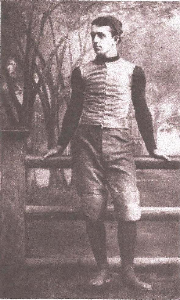 Portrait of William "Billy" Rhodes